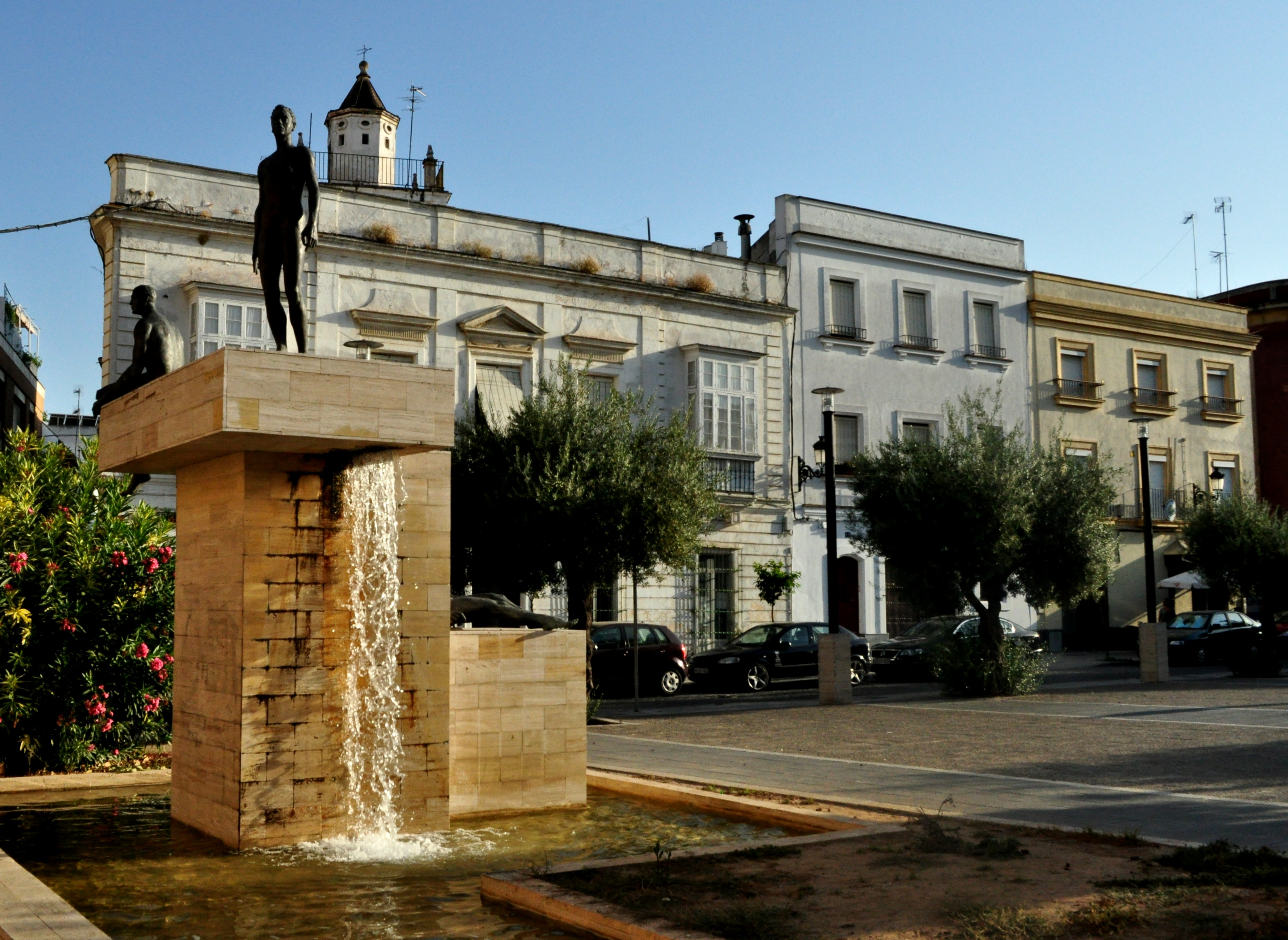 Sunset at San Andres Square, Jerez de la Frontera